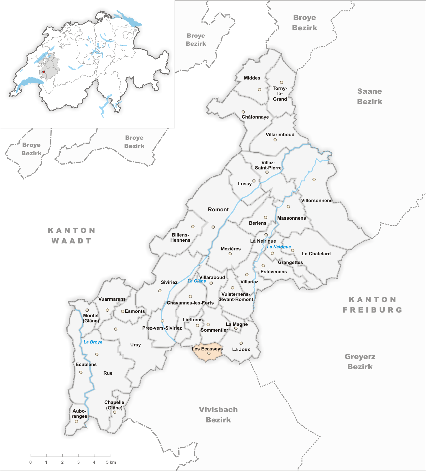 Municipality Les Ecasseys Artist: Tschubby